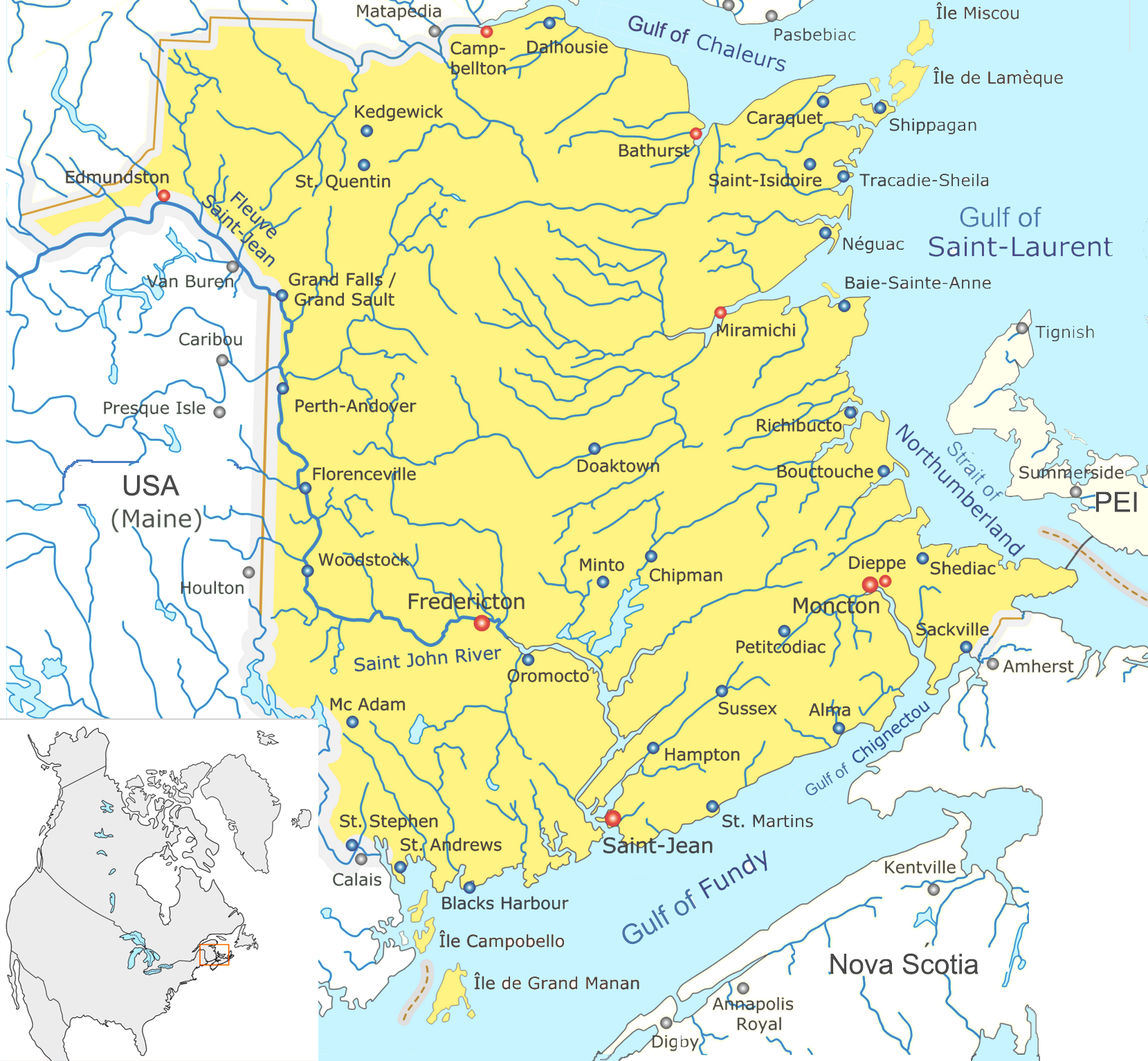 Map of New Brunswick Carte anglophone du Nouveau-Brunswick